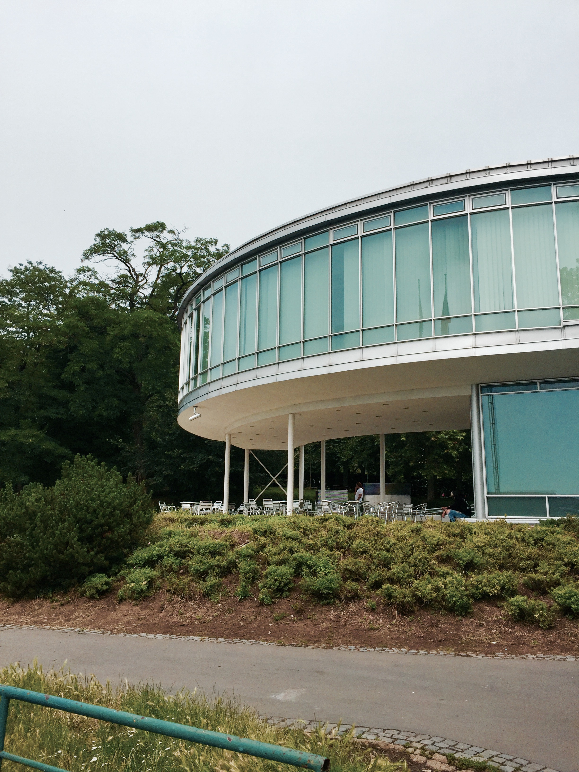 Czechoslovakia EXPO 58 pavilon in Prague, Letenské sady, Holešovice, Praha 7